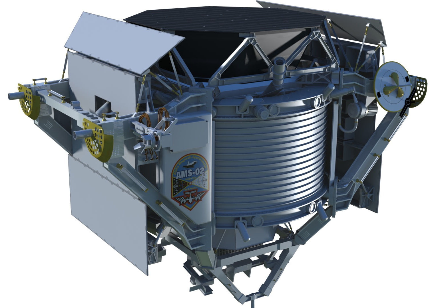 The Alpha Magnetic Spectrometer (AMS-02) is a state-of-the-art particle physics detector constructed, tested and operated by an international team composed of 60 institutes from 16 countries and organized under United States Department of Energy (DOE) sponsorship. The AMS-02 will use the unique environment of space to advance knowledge of the universe and lead to the understanding of the universe's origin by searching for antimatter, dark matter and measuring cosmic rays.